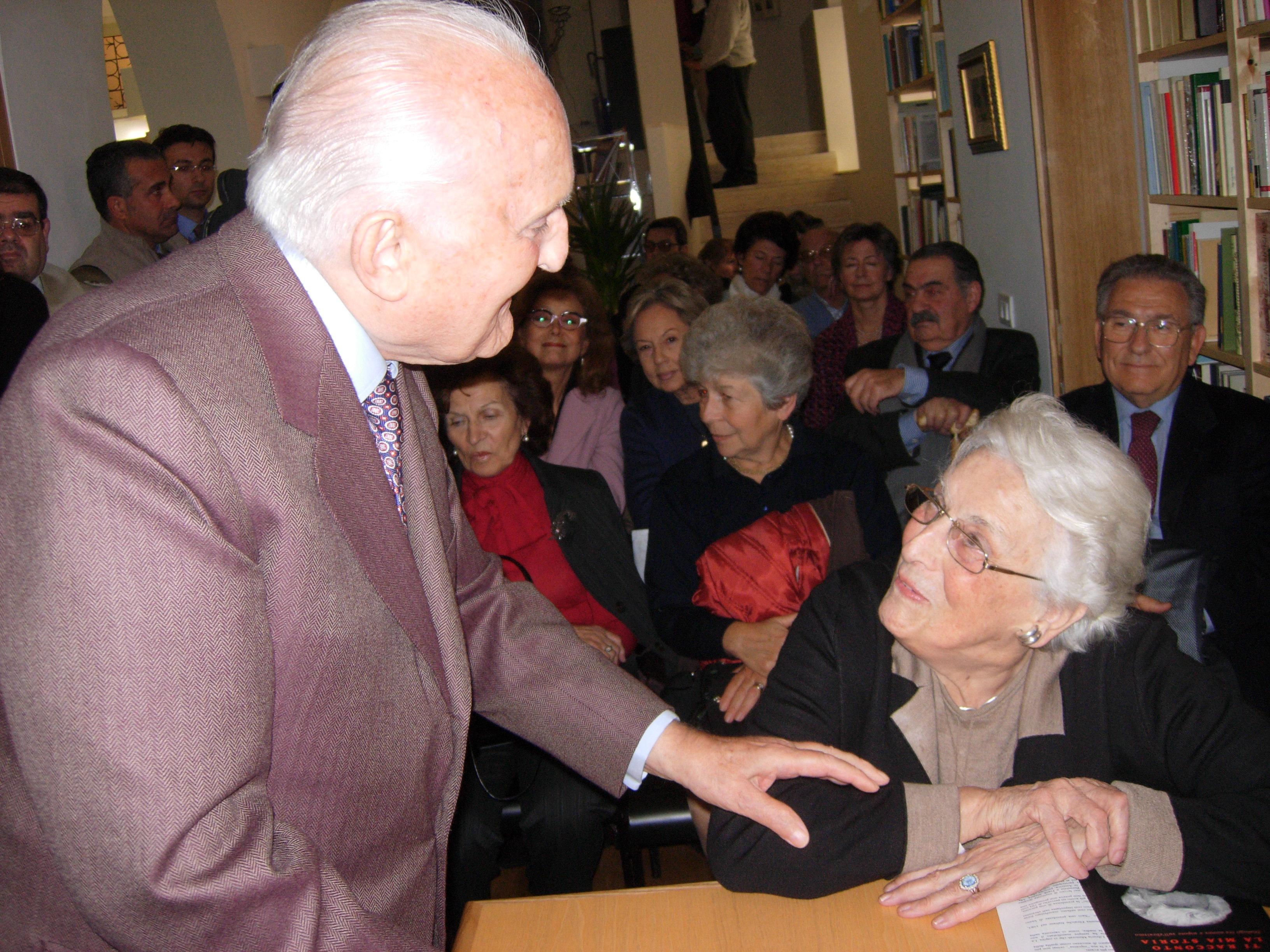 Tullia Zevi with Oscar Luigi Scalfaro.